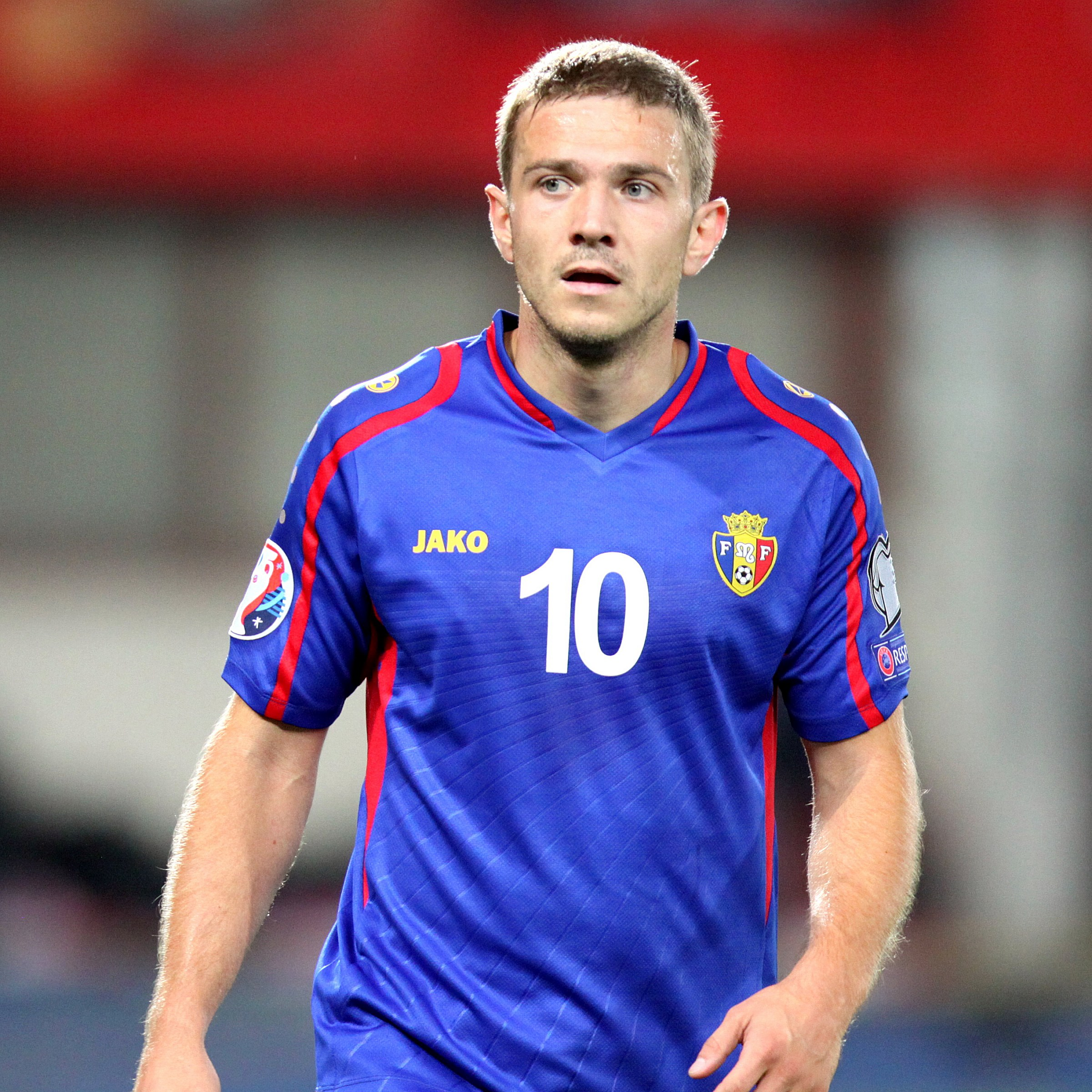 UEFA Euro 2016 qualifying, Group G – Austria national football team (red shirts) vs. Moldova national football team (blue shirts) on 2015-09-05 in Ernst-Happel-Stadion, Vienna: The photo shows Alexandru Dedov